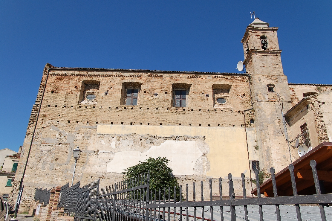 Vasto 2011